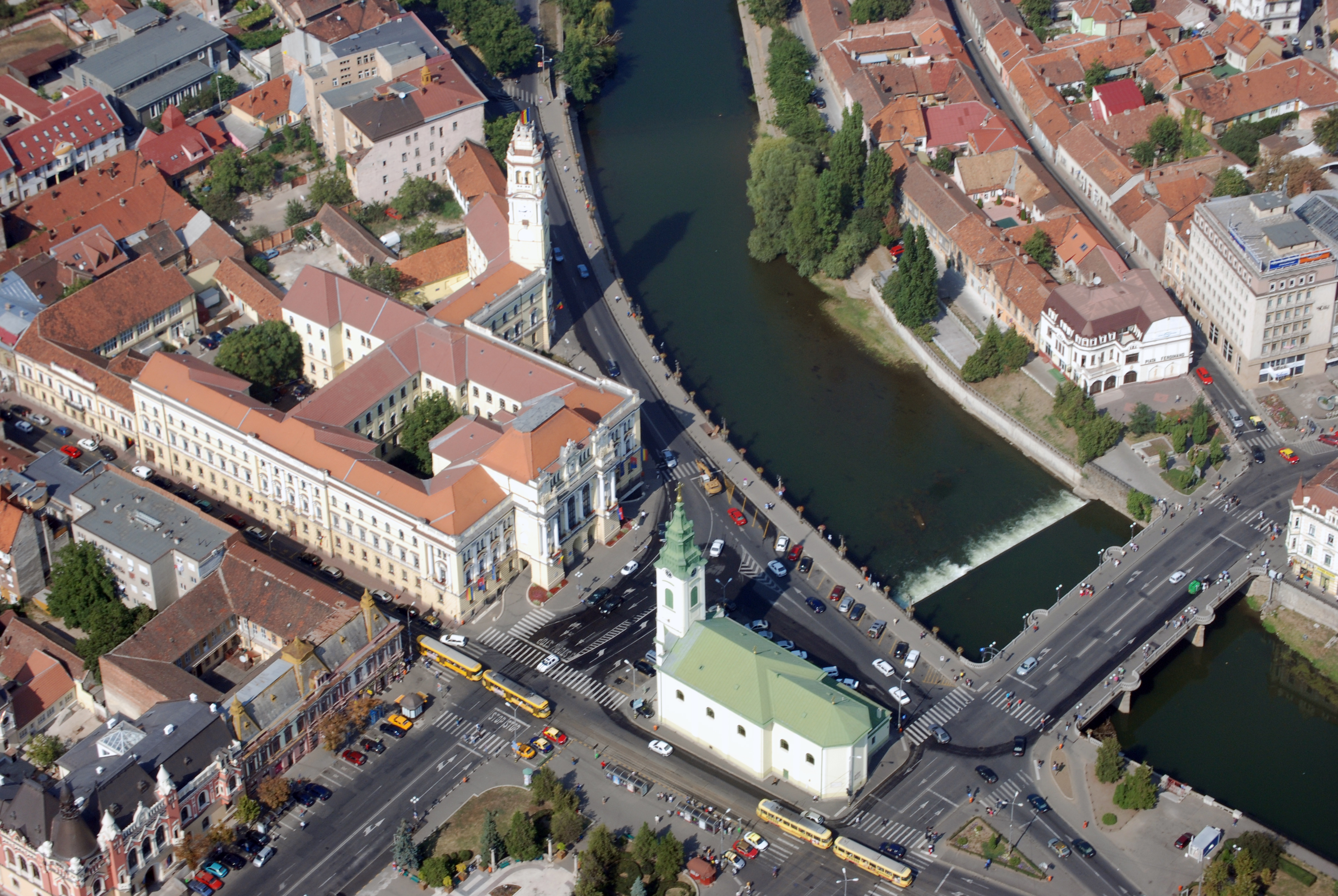 Oradea Center and Town Hall